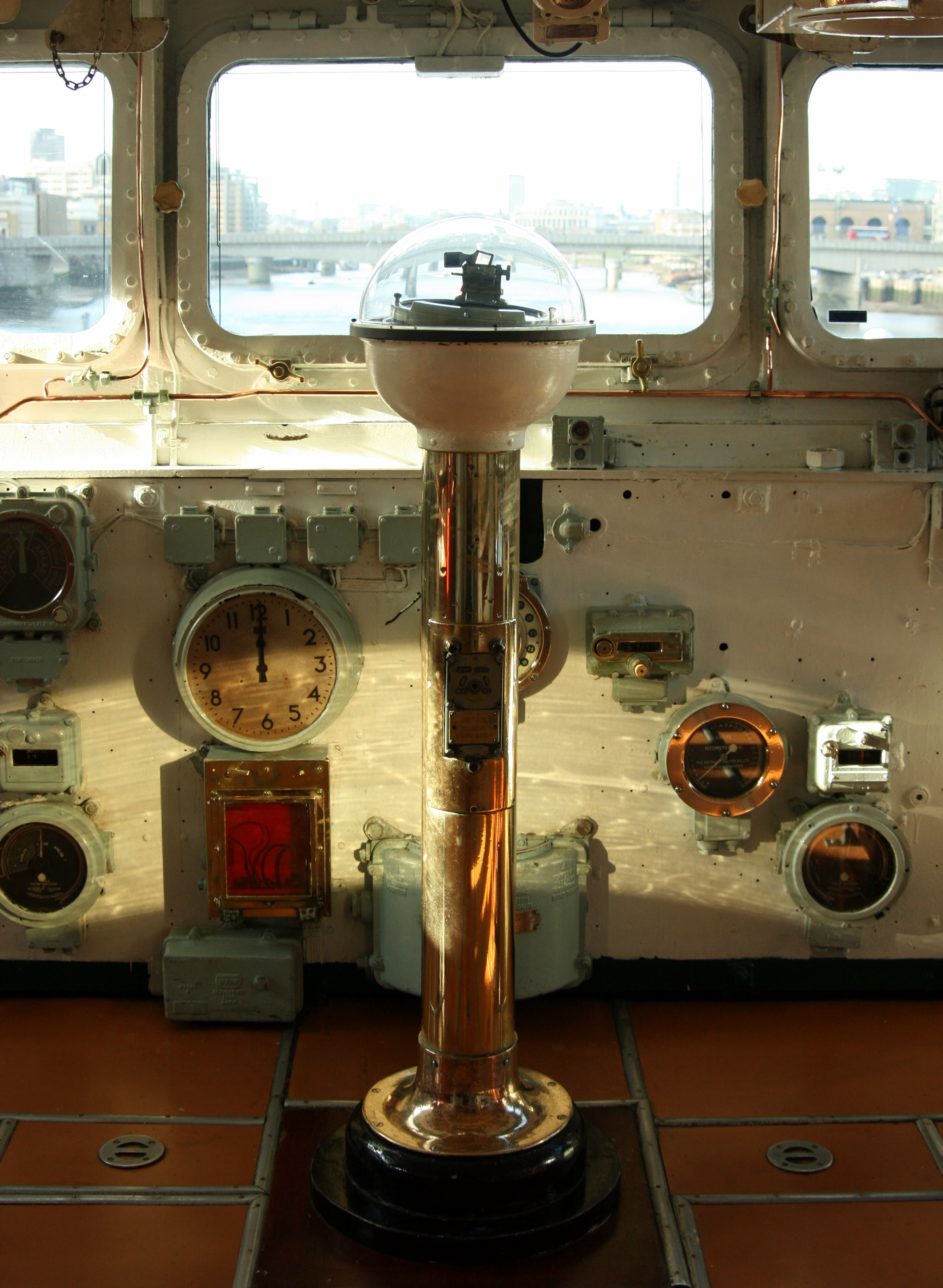 on the compass platform of HMS Belfast